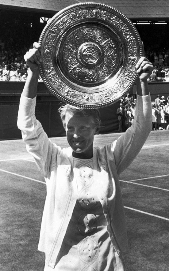 1969 Press Photo Wimbledon Champion Ann Jones Holding Trophy Ladies Singles